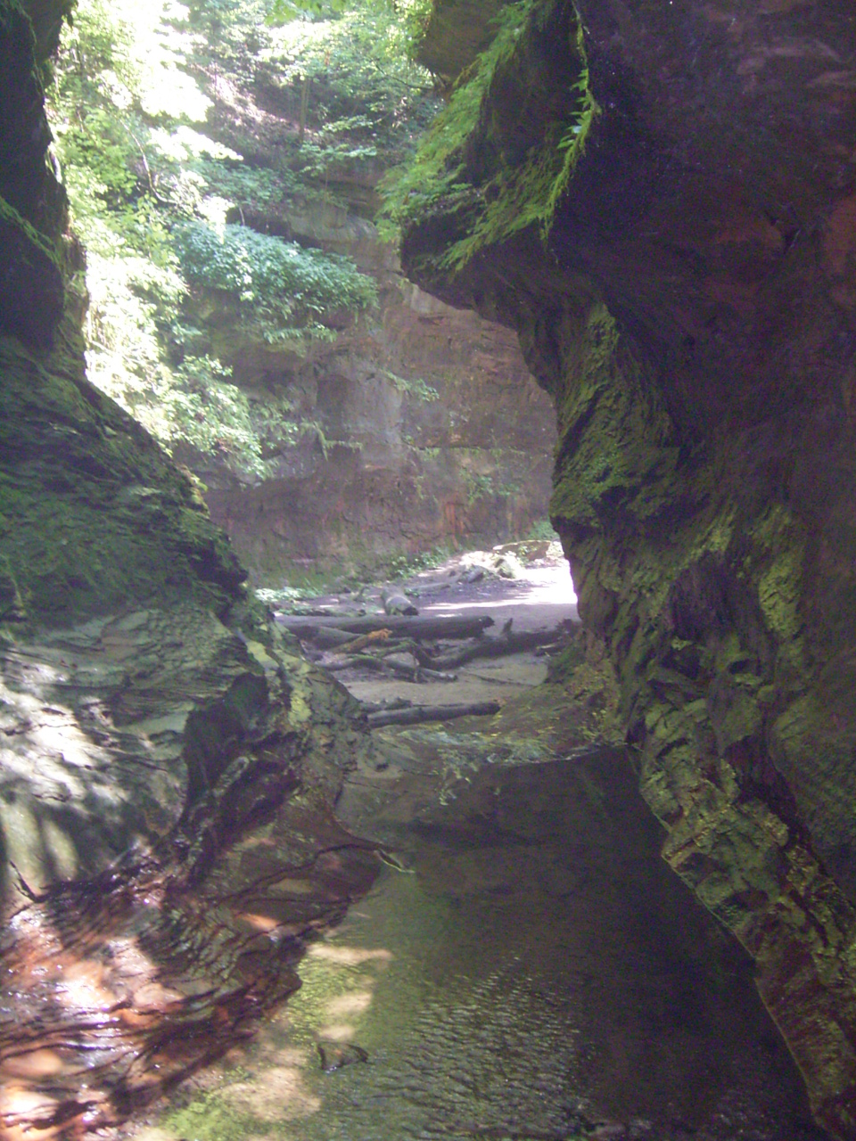 View from inside a gorge, Turkey Run State Park, Indiana, 6-2005